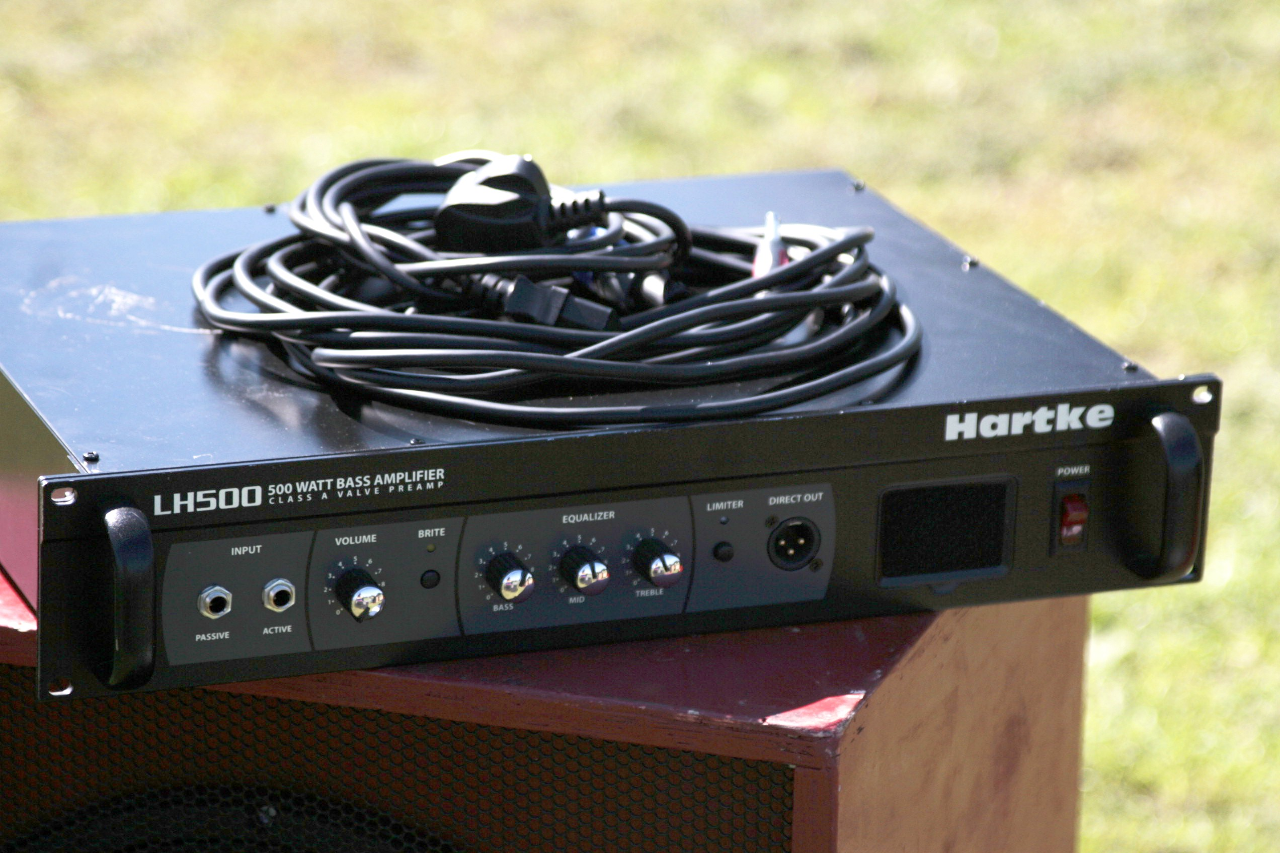 Peace in the Park, UK, 2010 Hartke LH500 Bass Amplifier